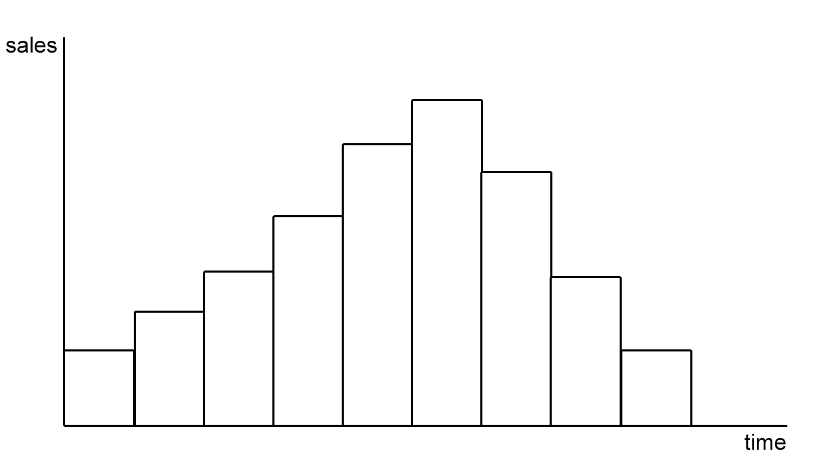 Shows the graph of a discrete event simulation of sales of a certain product.